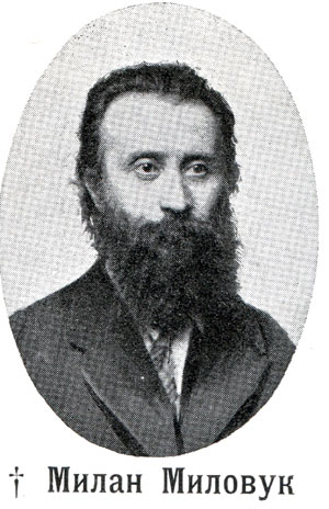 Milan Milovuk founder and editor of the Bogradske ilustrovane novine, Belgrad 1869. Srpski (latinica): Milan Milovuk osnivač i urednik Bogradskih ilustrovanih novina, Beograd 1869.